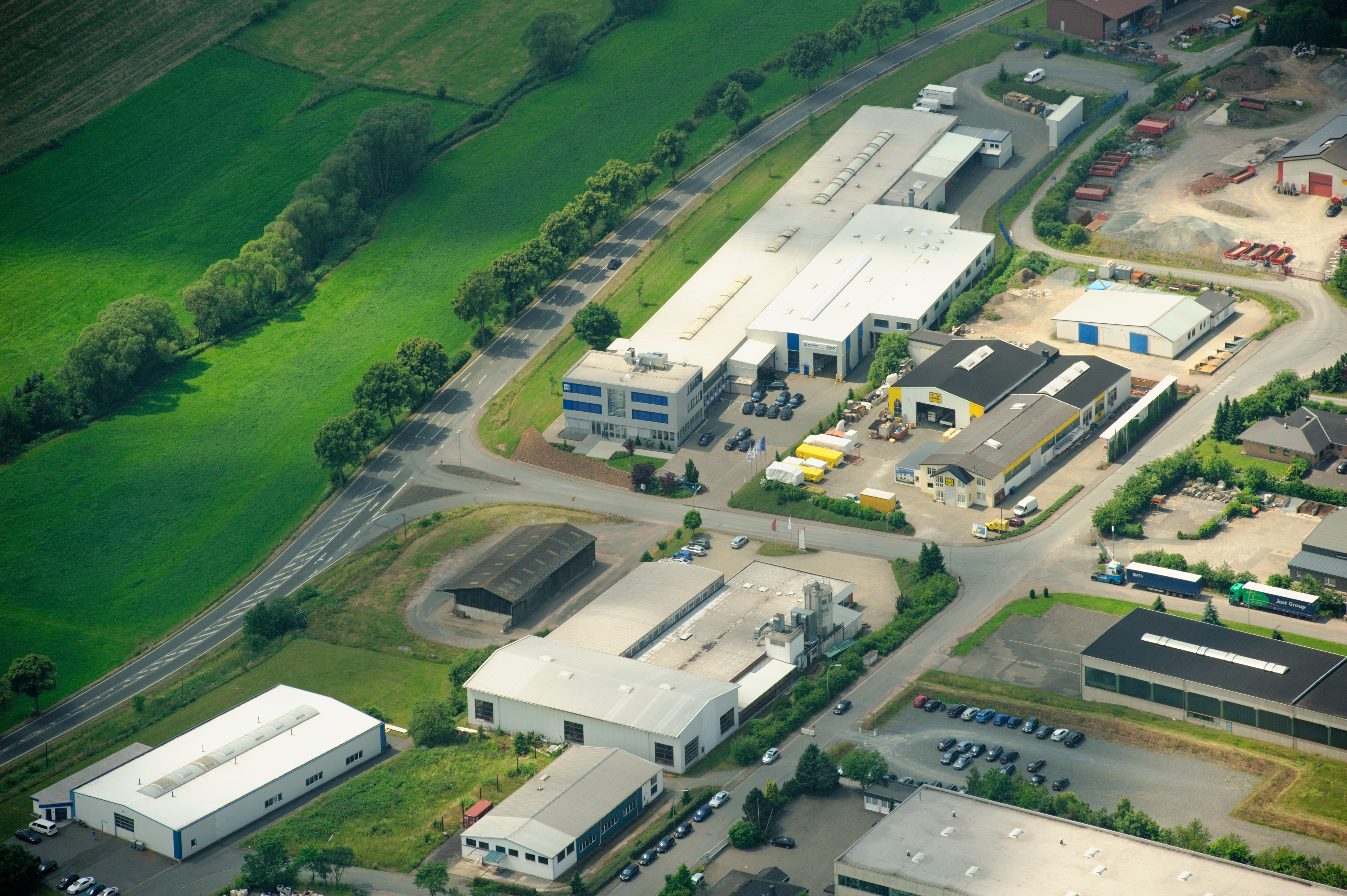 Fotoflug Sauerland-Ost: Medebach, Gewerbegebiet „Holtischer Weg“, L740, Bach Medebach. The making of this document was supported by the Community-Budget of Wikimedia Germany.